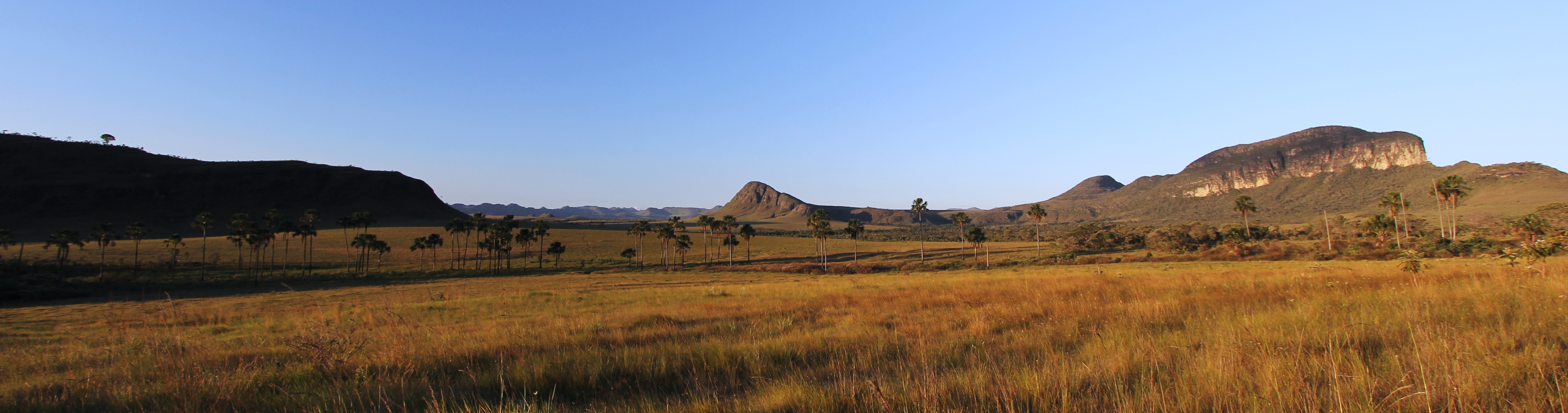 Maytrea Garden, Chapada dos Veadeiros, Goias, Brazil